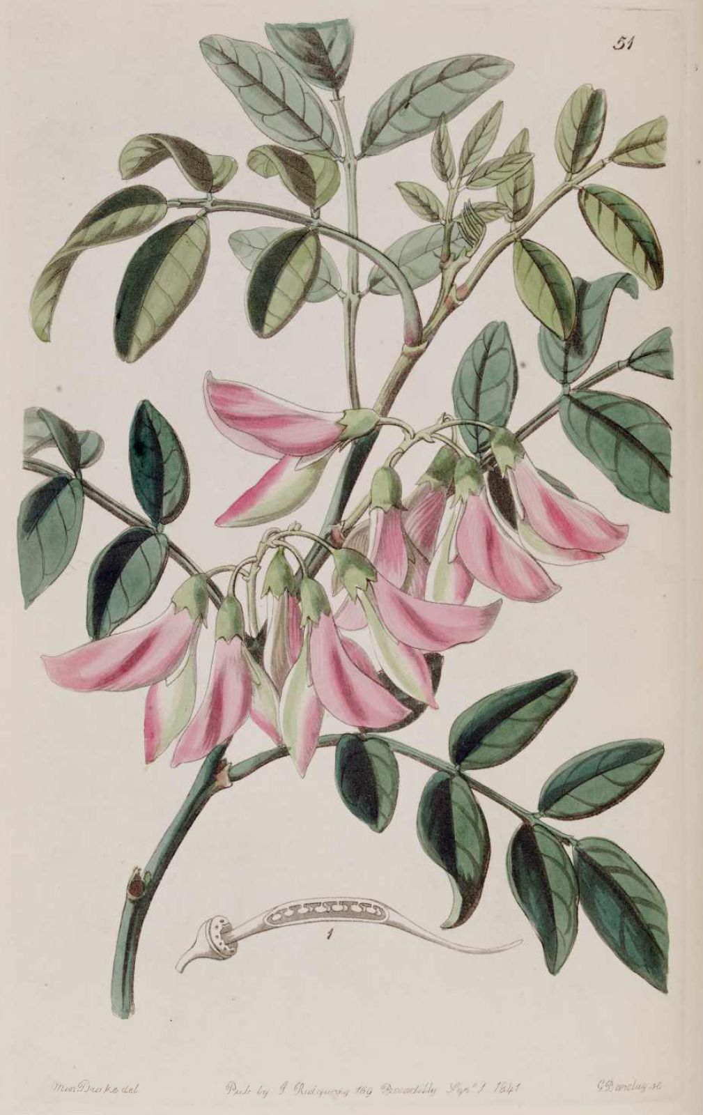 Plate displaying Clianthus carneus (accepted taxon Streblorrhiza speciosa) an extinct plant from Philip Island